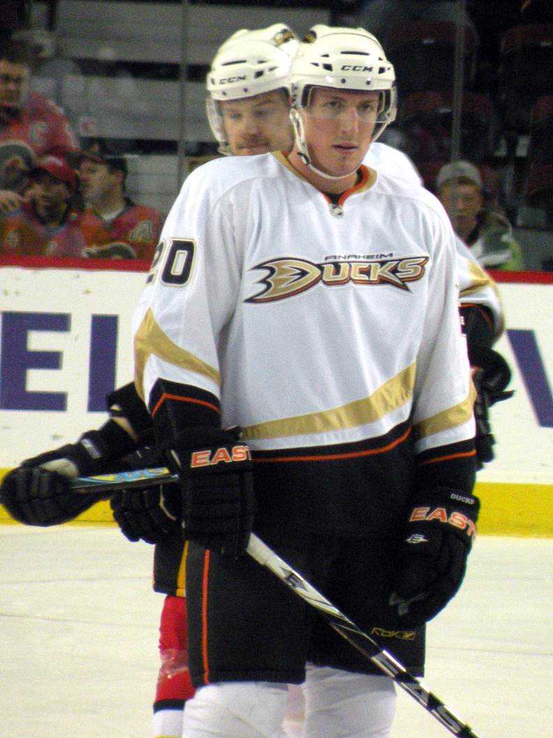 Anaheim Ducks forward Ryan Carter prior to a National Hockey League game against the Calgary Flames.